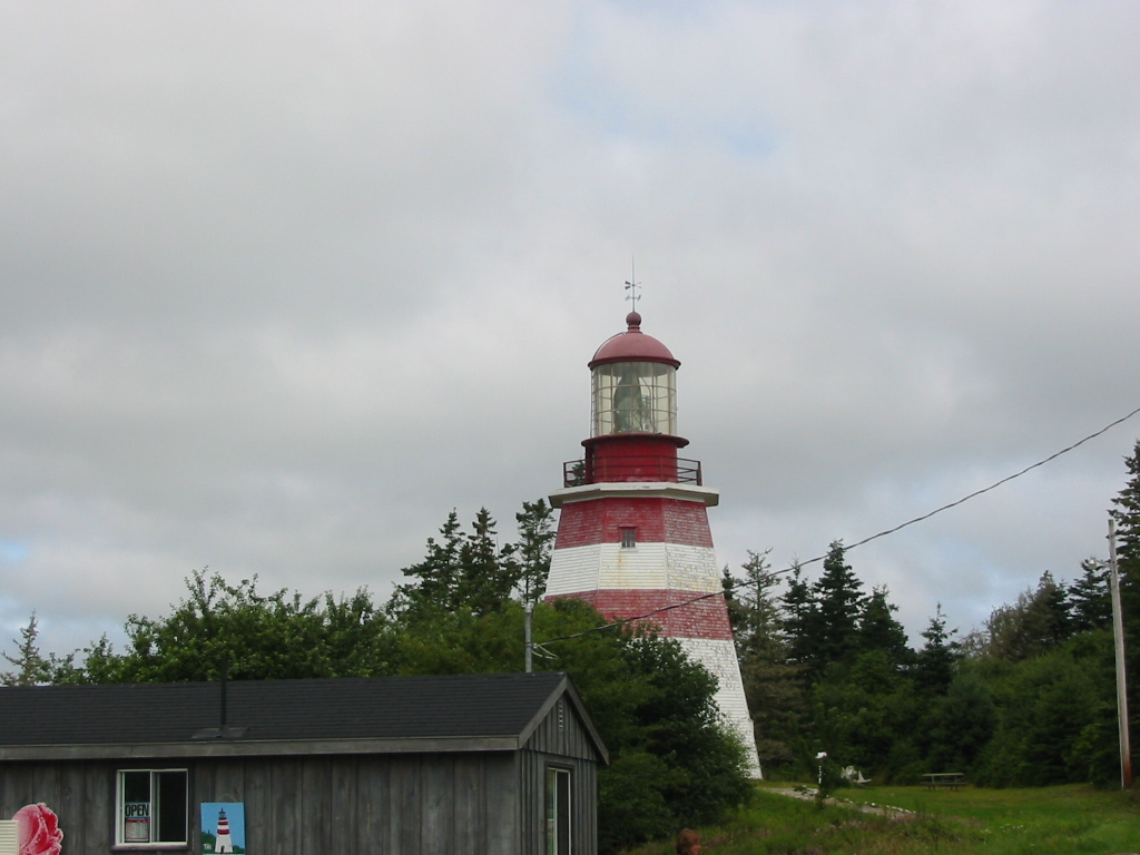 This is the replica of the Seal Island lighthouse, currently situated in Barrington, Nova Scotia.